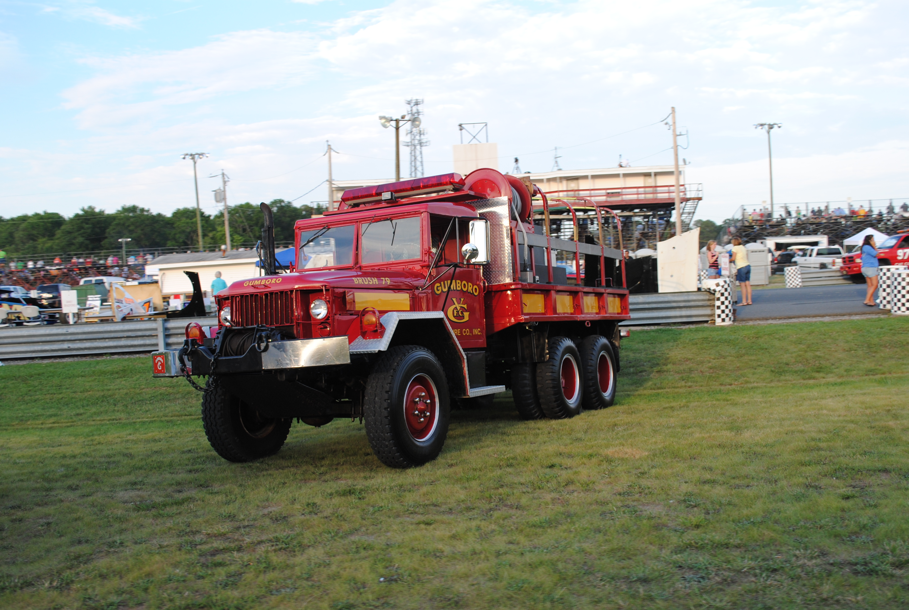 Gumboro Volunteer Fire Company brought its brush truck for display. Camp Barnes is a free summer youth camp that is run by the Delaware State Police. The Delaware International Speedway in Delmar, DE holds this special event each summer and donates all of the proceeds to Camp Barnes. This is the 40th anniversary of the event.